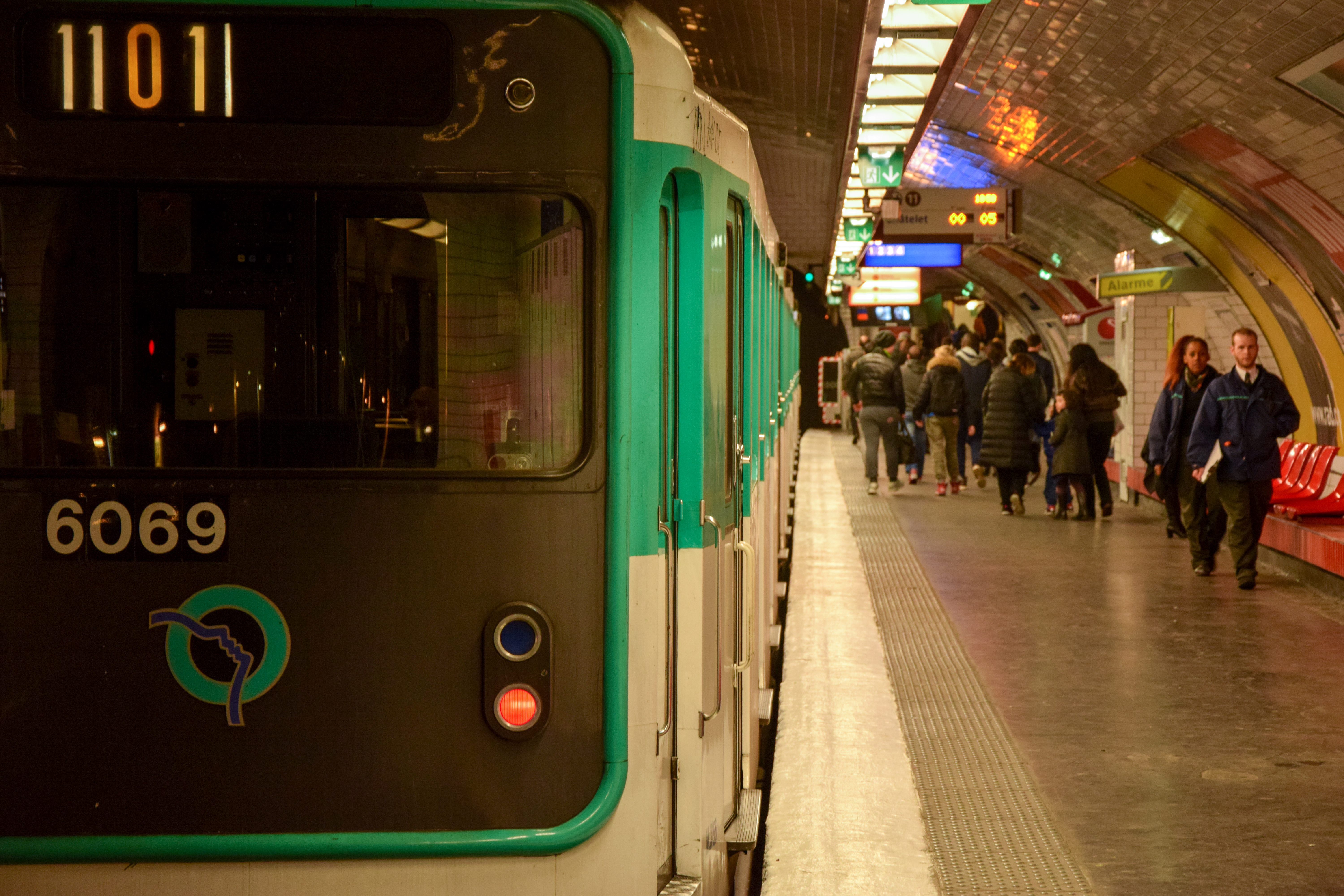 Line 11 of the Paris subway at station "République"